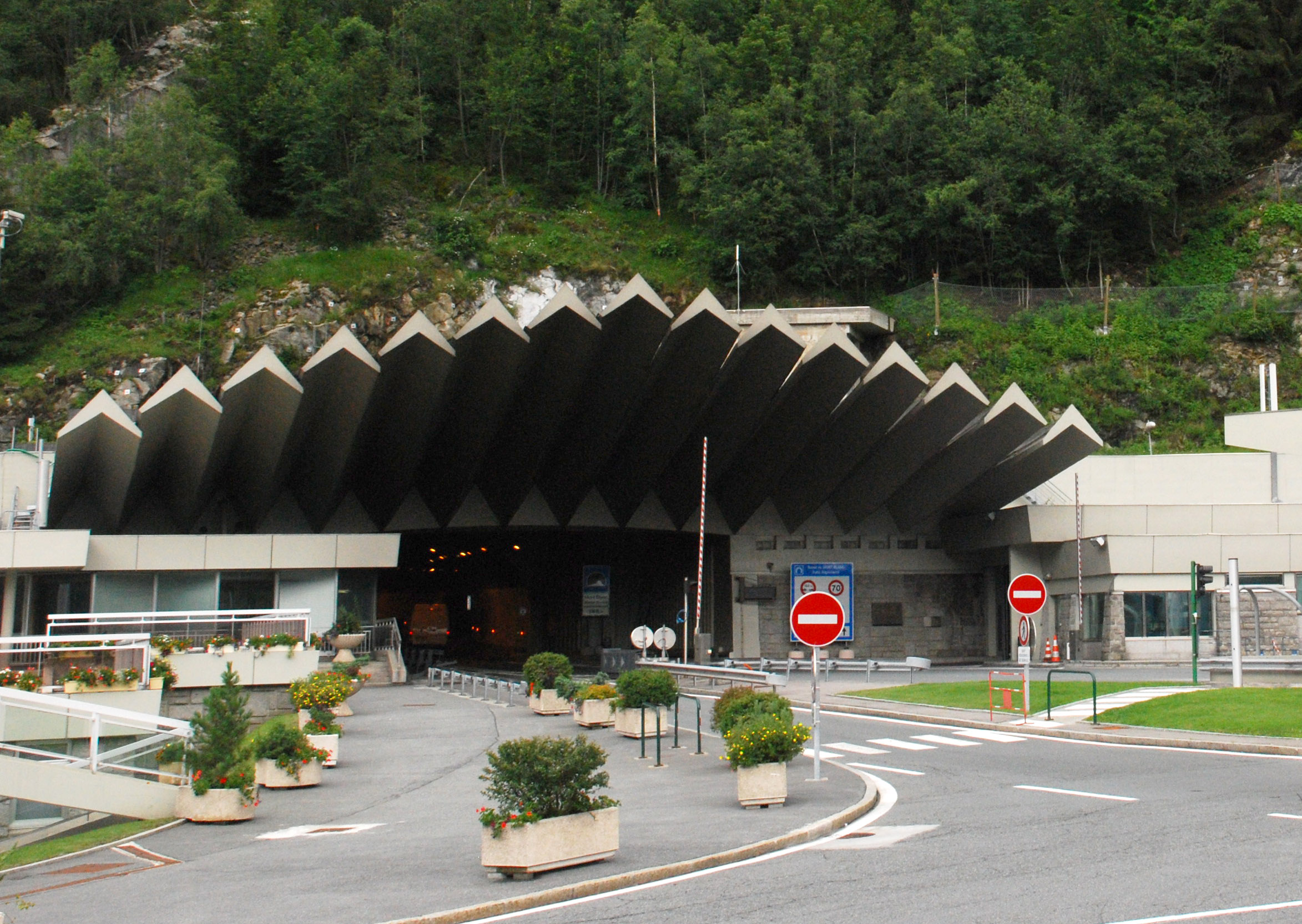 Entrance of the Mont-Blanc Tunnel, on the French side (city of Chamonix)